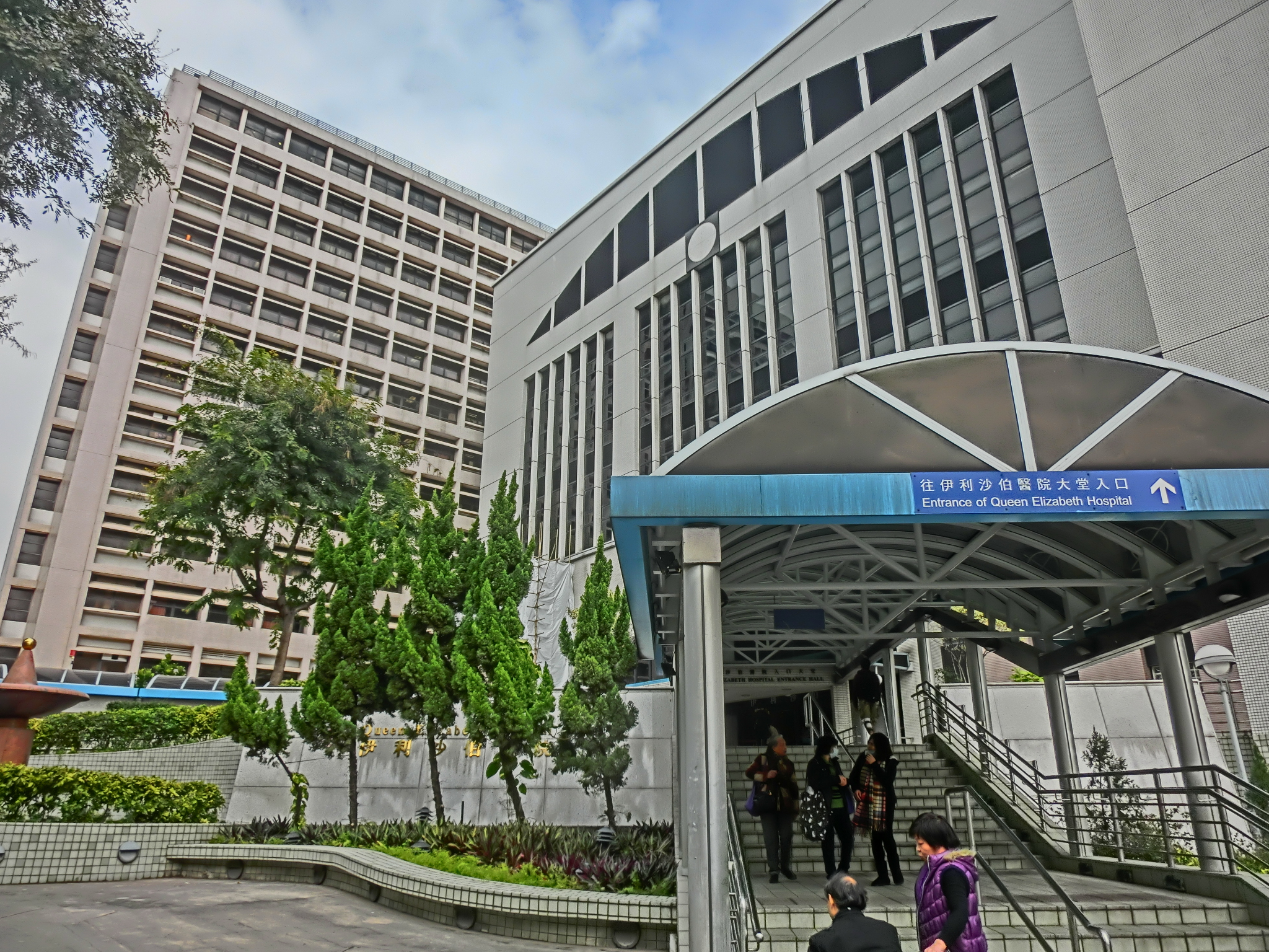 伊利沙伯醫院, Queen Elizabeth Hospital, King's Park, Yau Ma Tei, Hong Kong